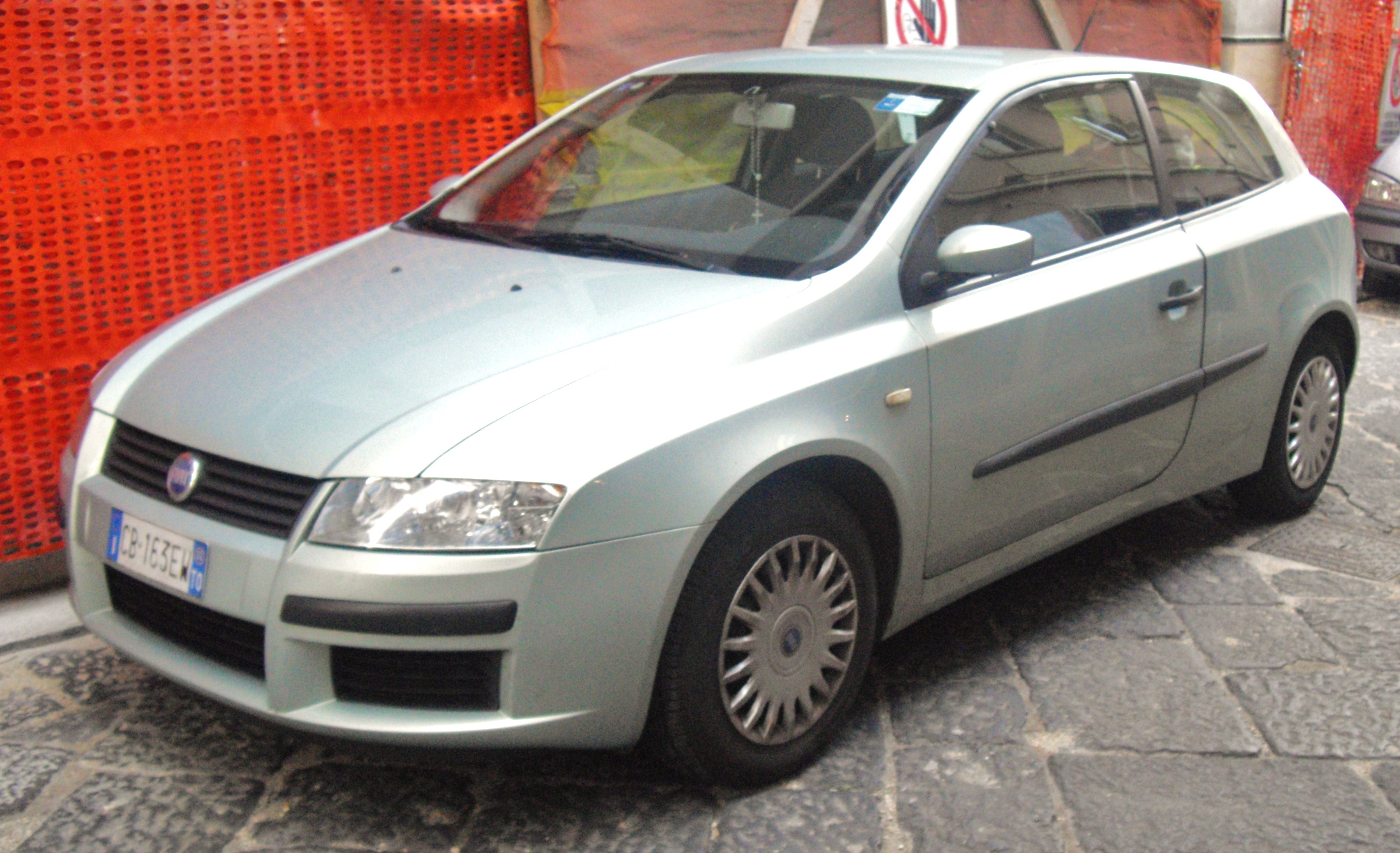 2004 Fiat Stilo hatchback front